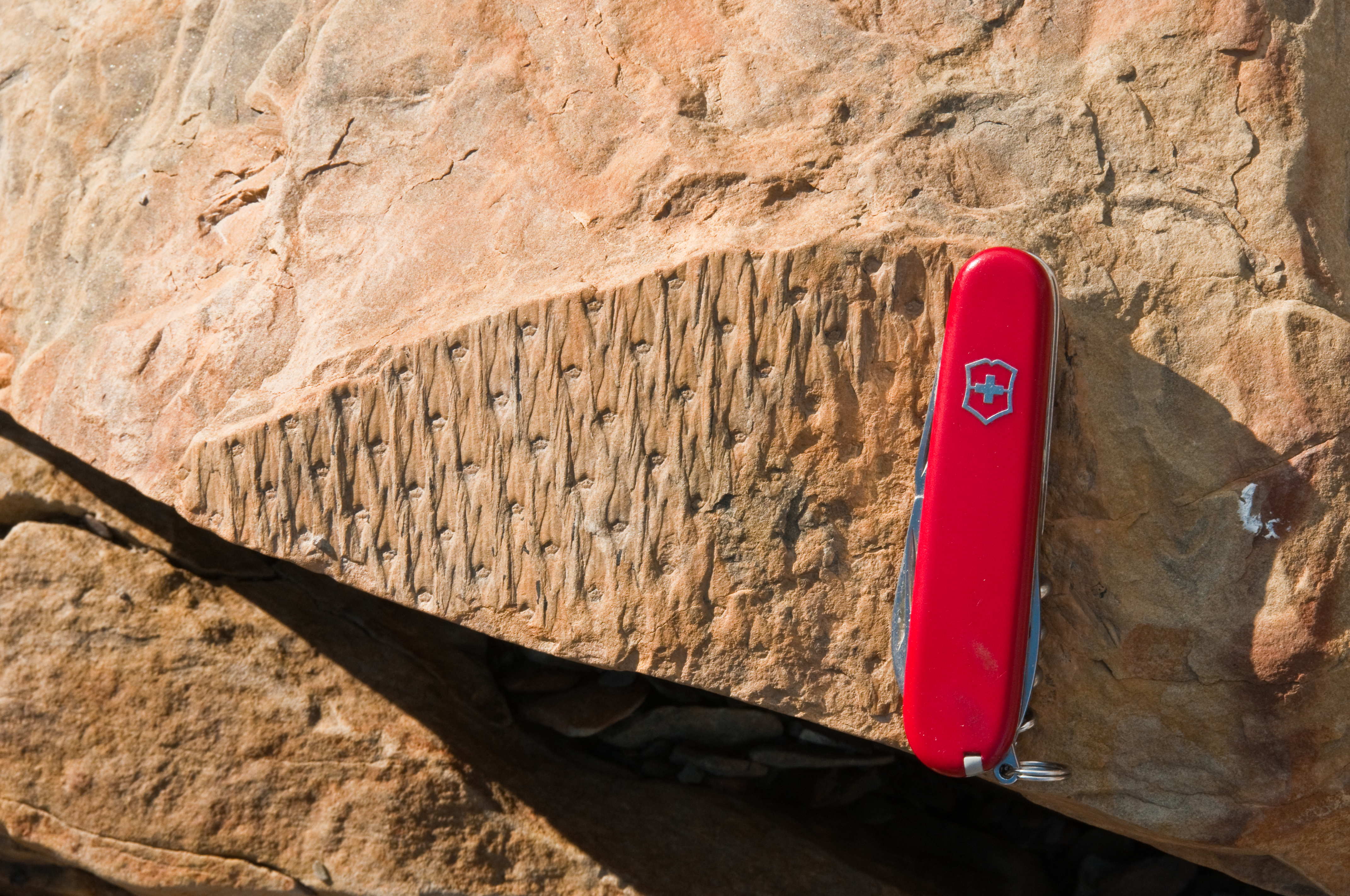 Imprint of bark of lycopod tree (Lepidodendron) in fine sandstone of the Pennsylvanian period (?Joggins Formation). Joggins Fossil Cliffs World Heritage Site, Nova Scotia.